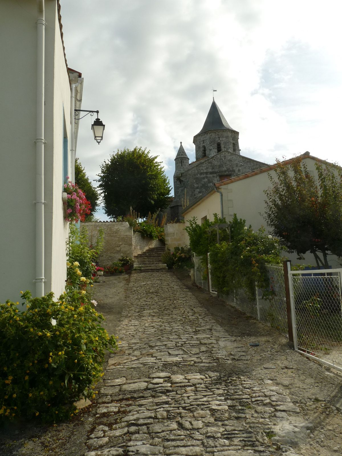 street and church of Arces (Charente-Maritime), SW France